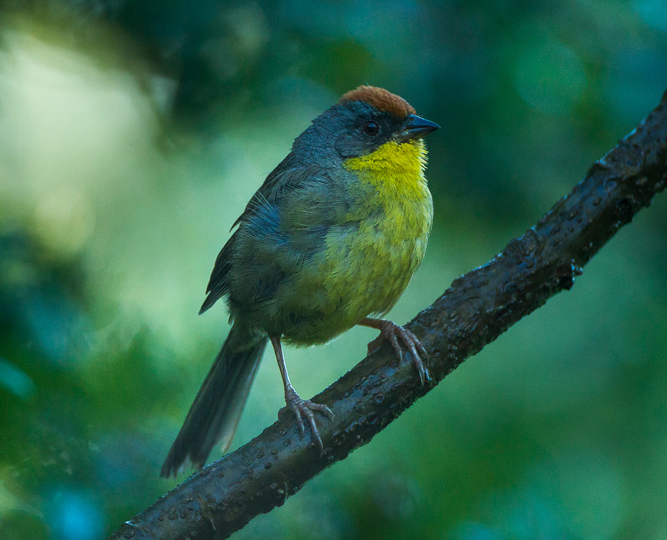 Rufous-capped Brush-Finch - Sinaloa - Mexico_S4E1209